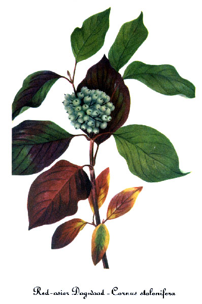 Watercolor painting of Cornus_stolonifera-3.